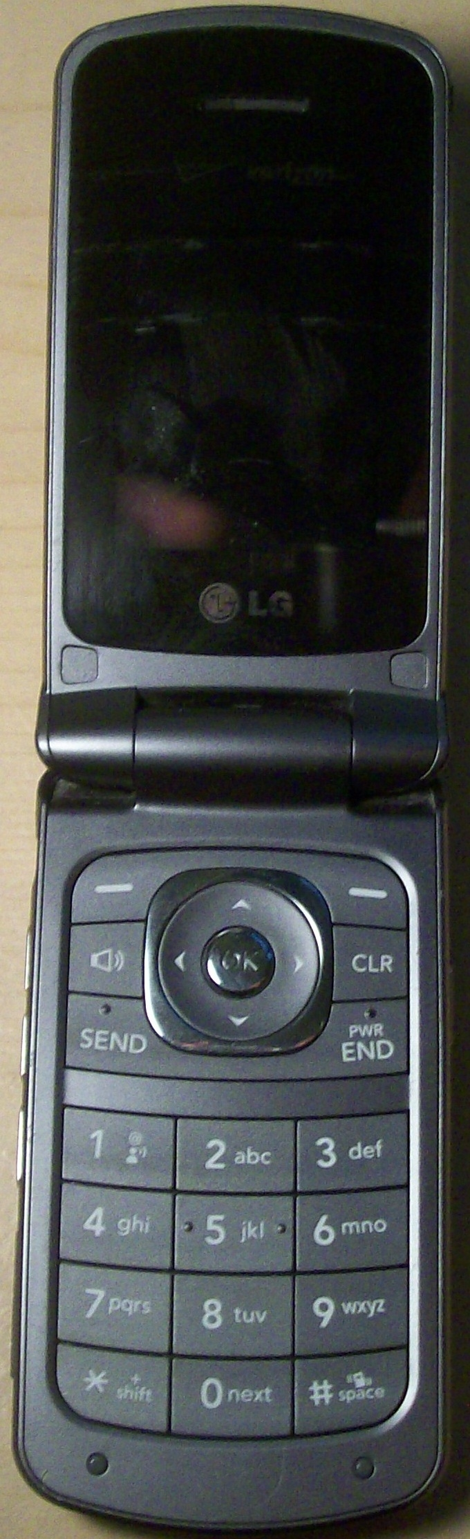 My Verizon Wireless LG VX5500 flip phone.